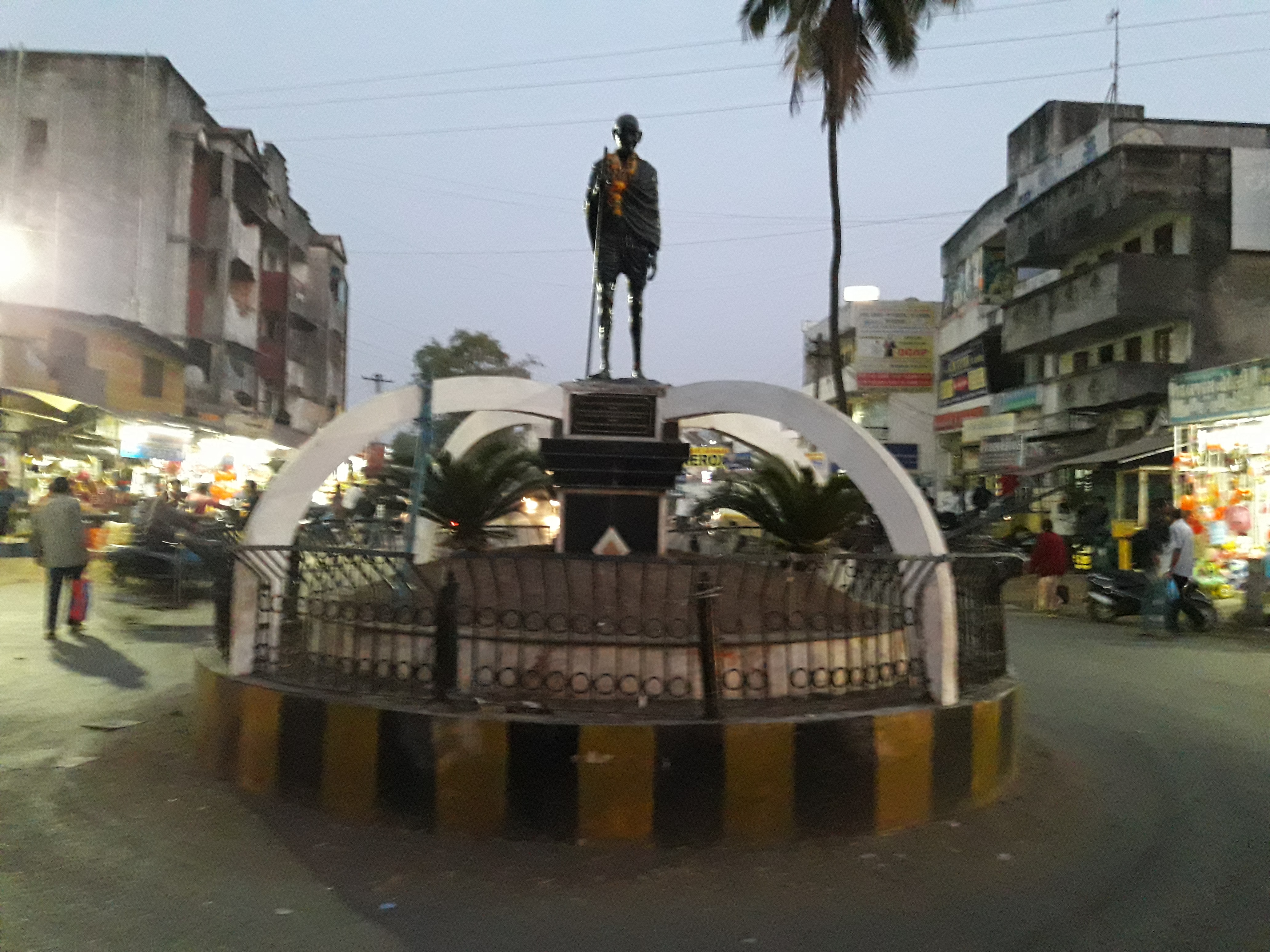 Eru Circle Navsari, Gujarat, India